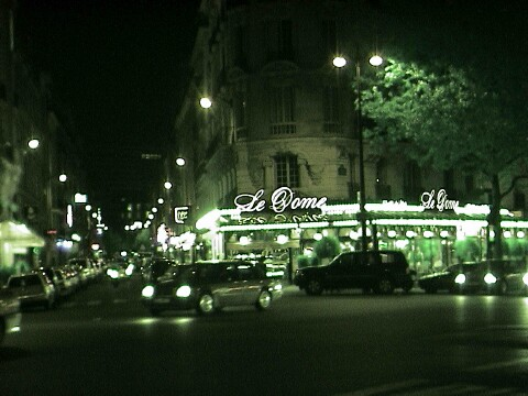 Cafe du Dome at night, 2002, photographed by Jeremy J. Shapiro